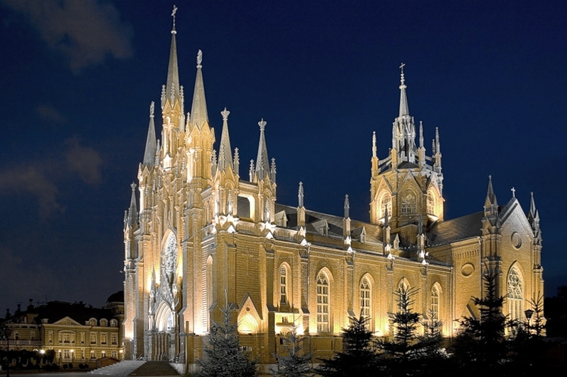 Cathedral of the Immaculate Conception of the Holy Virgin Mary, Moscow.